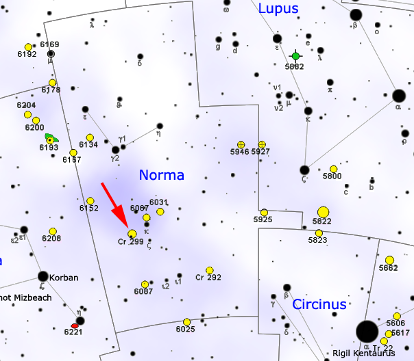 Map of Cr 299